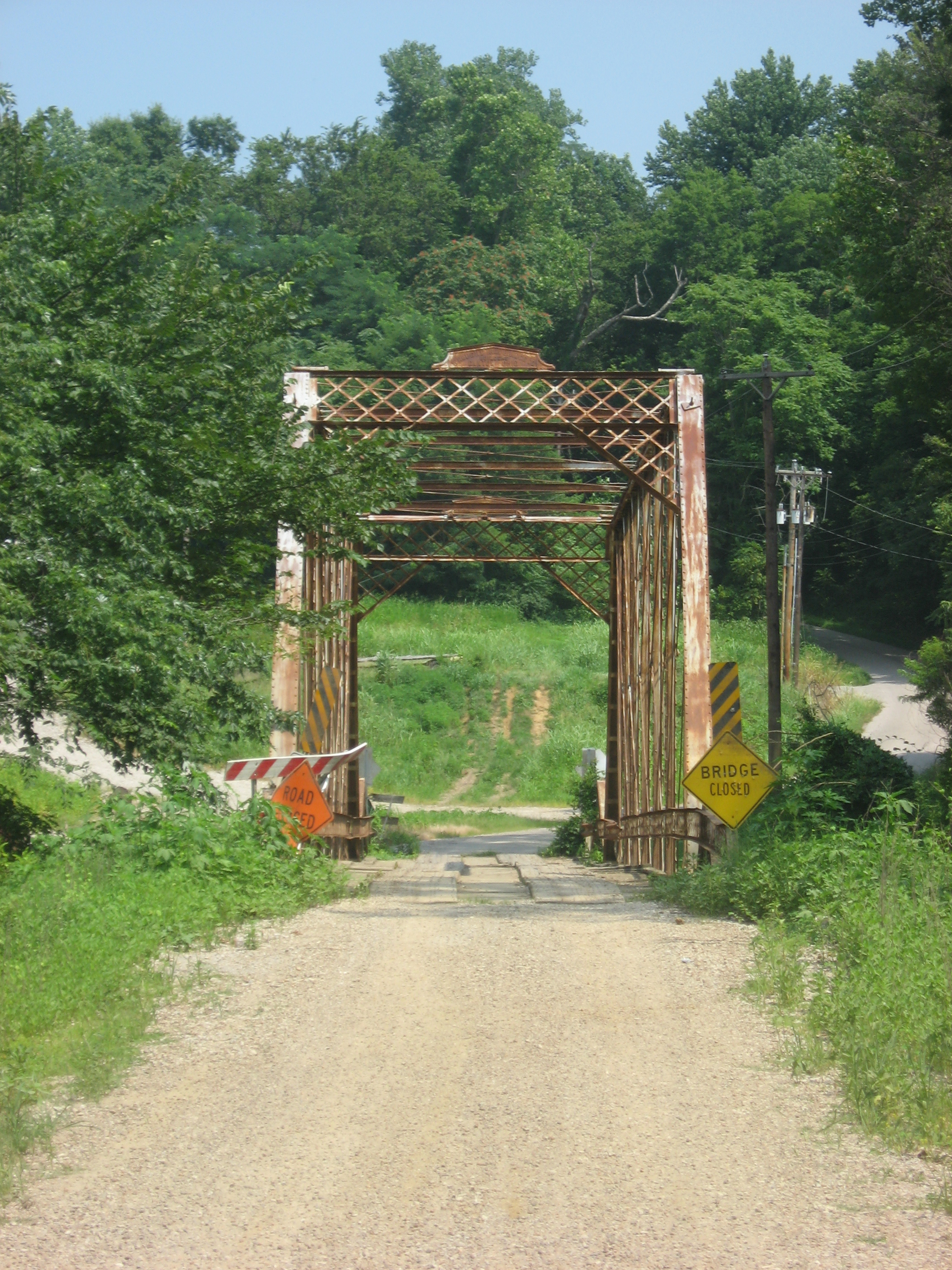 Southern portal of the River Road Bridge, which formerly carried Yankeetown Road over Little Pigeon Creek south of Yankeetown in Anderson Township, Warrick County, Indiana, United States. The Pratt through truss bridge (now closed due to structural issues) was built in 1900.